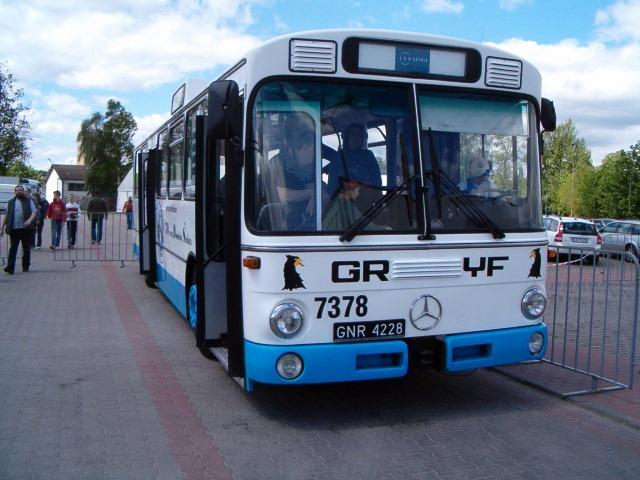 Mercedes-Benz O305 bus (#7378, reg. GNR 4228) in Gdynia, Poland. Built 1974, Gryf Kartuzy operator.